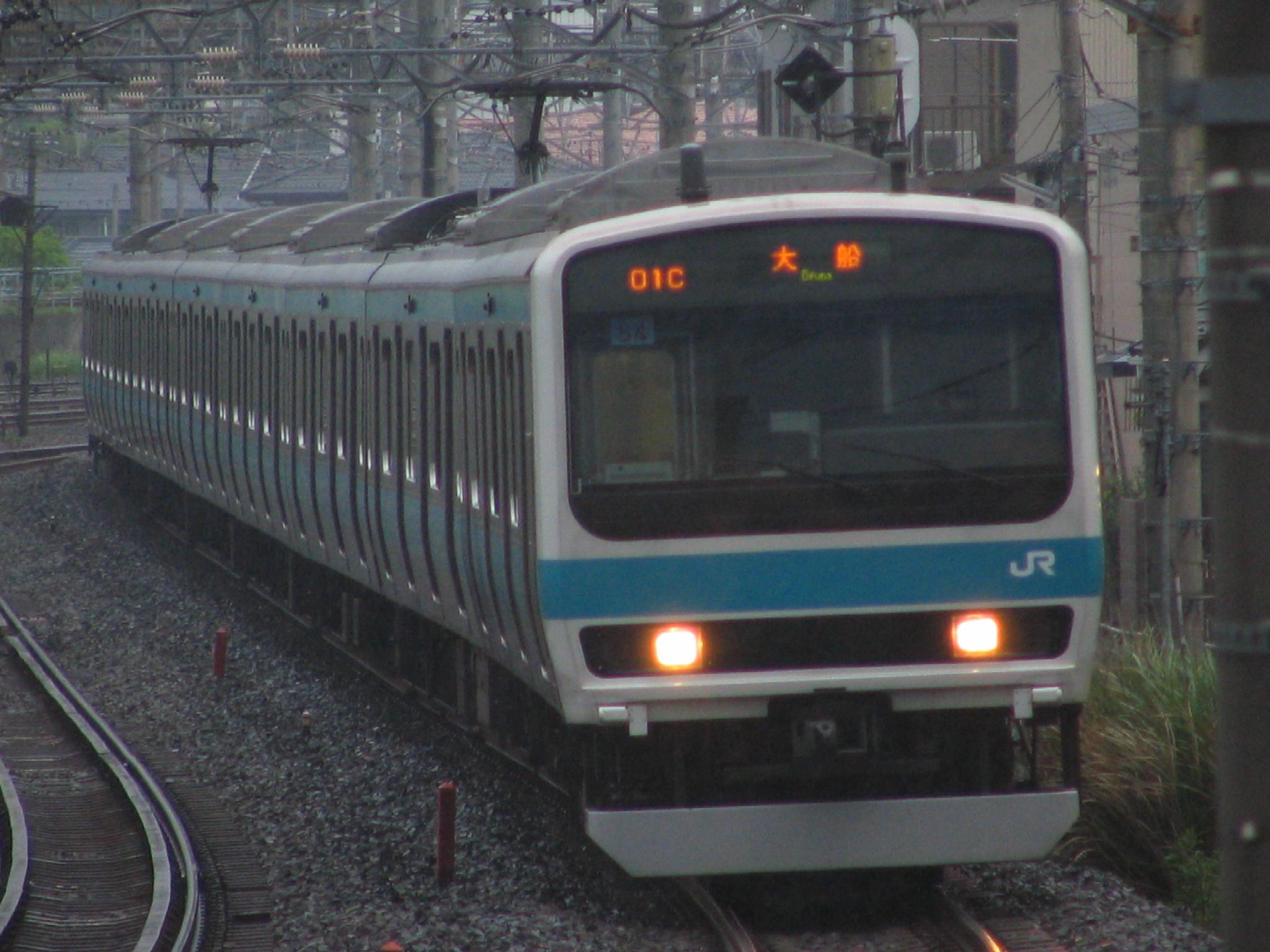 JR East 209-500 series EMU on the Keihin-Tohoku Line between Hongodai and Ofuna